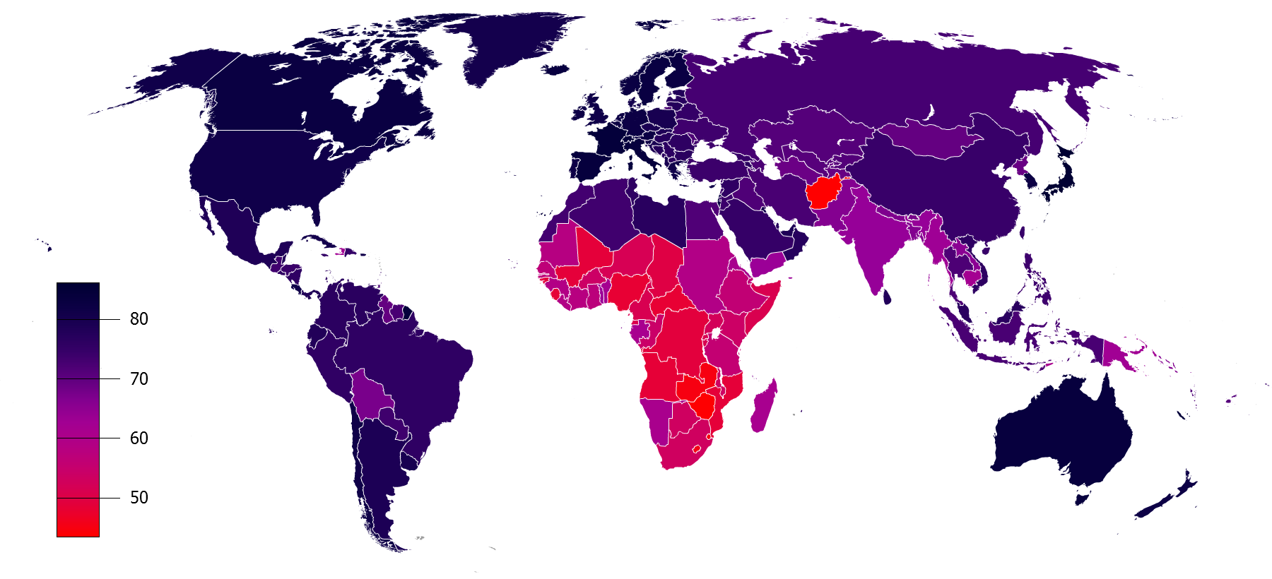 "The number of years a newborn female infant could expect to live if prevailing patterns of age-specific mortality rates at the time of birth were to stay the same throughout the child’s life."